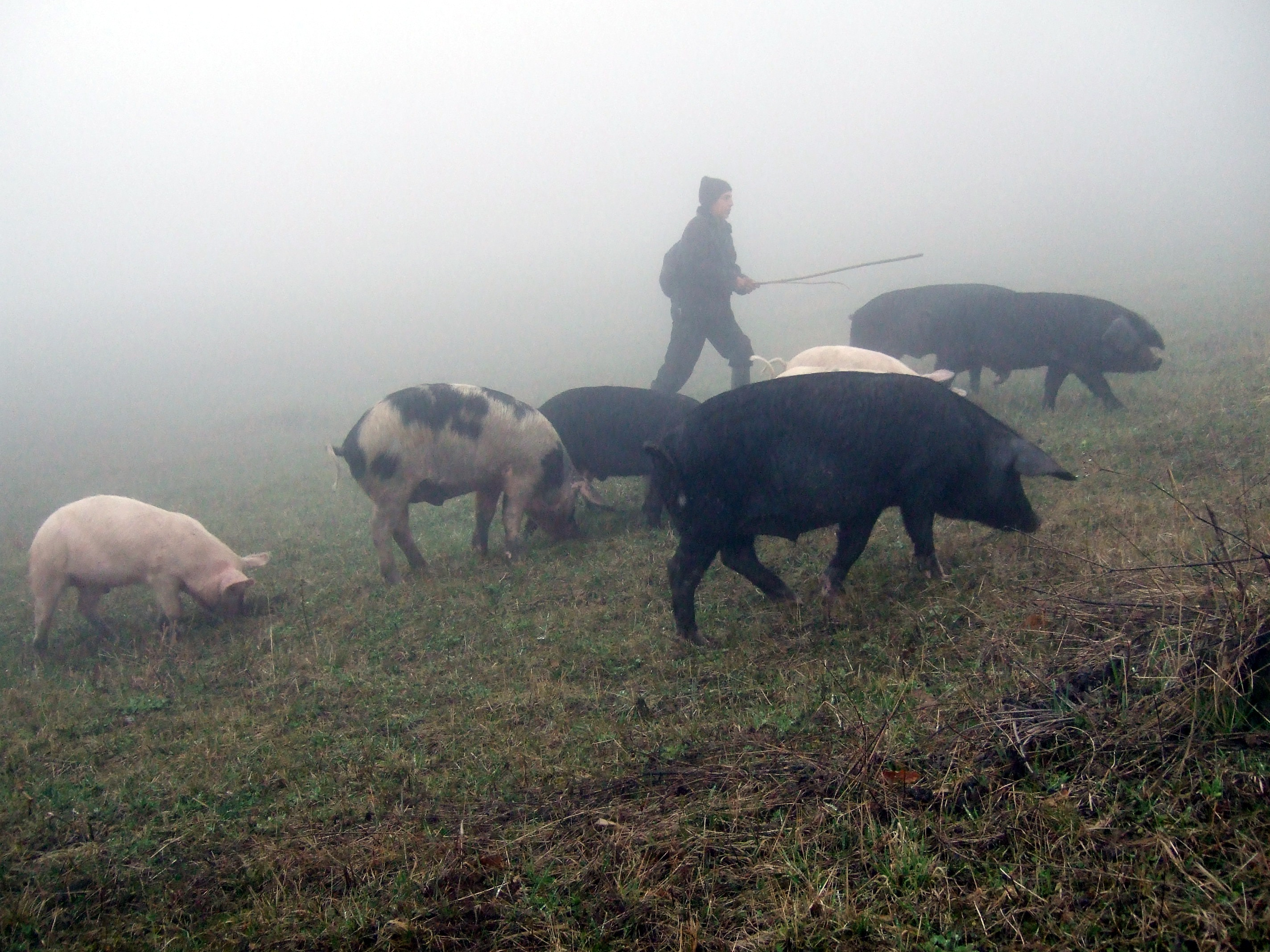 A lone guy herding pigs in the foggy mountains of Dilijan in early spring